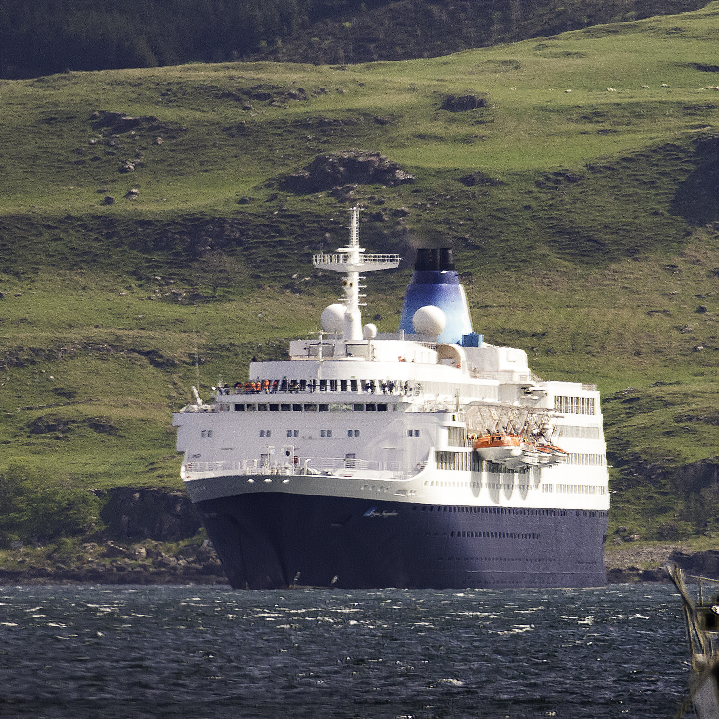 Cruise Ship Saga Sapphire off Tobermory, Mull 2014-05-16. Following an electrical fire the Saga Sapphire anchored and the lifeboats were deployed from the side of the ship.